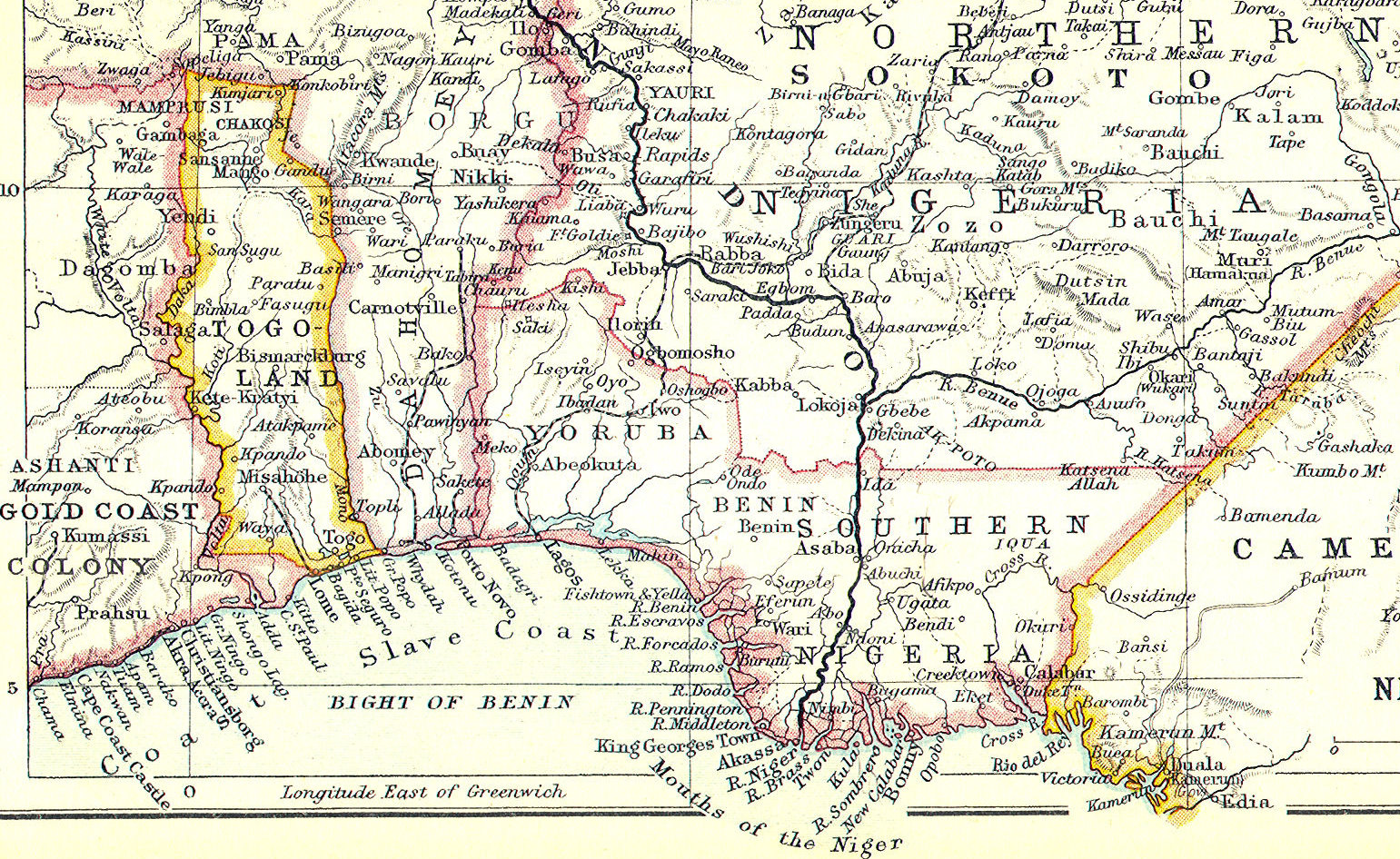 The Slave Coast on a John Bartholomew & Co. map published c. 1914 (part).